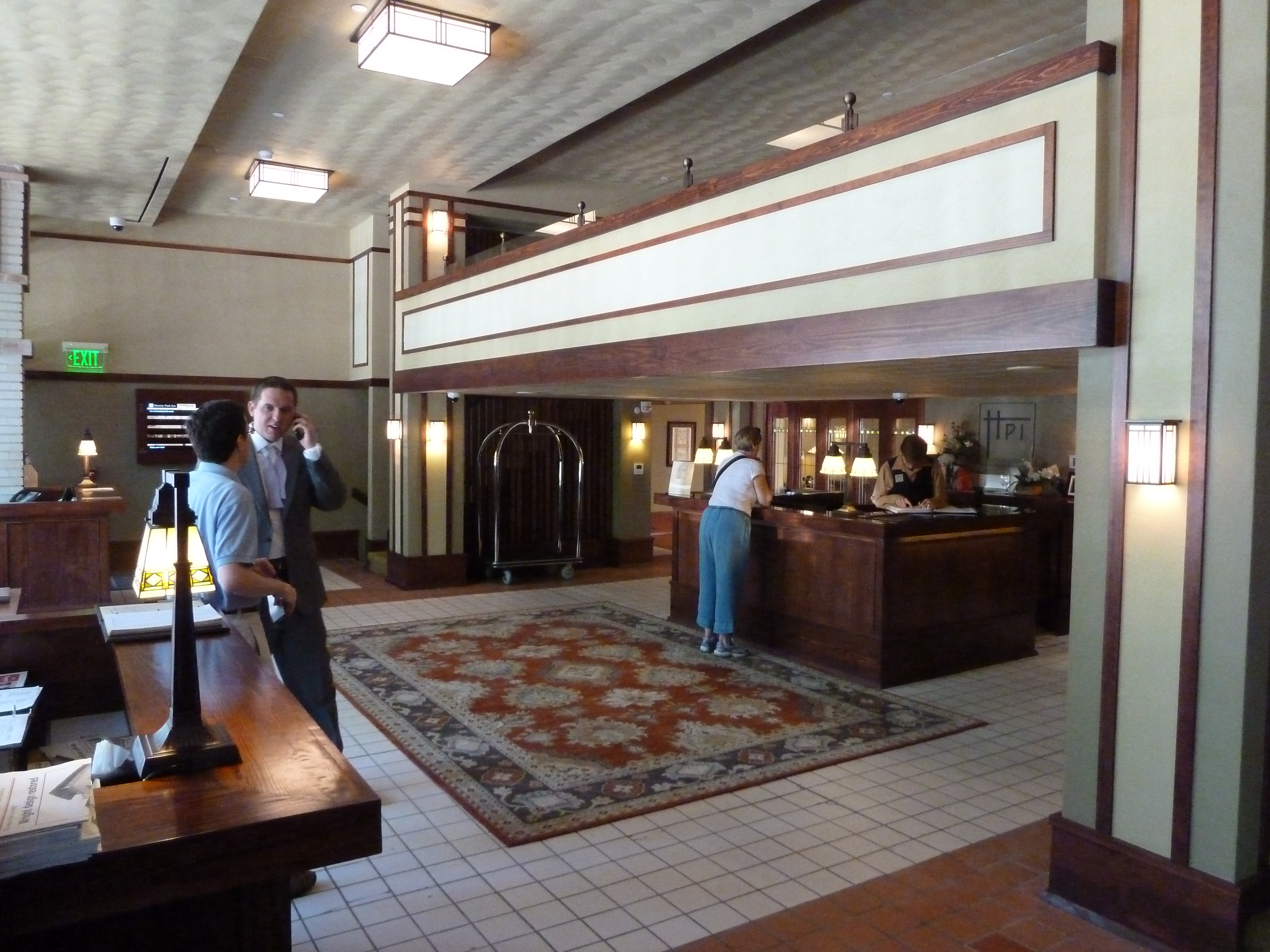 The restored lobby of the Park Inn Hotel, designed by Frank Lloyd Wright, Mason City, Iowa.